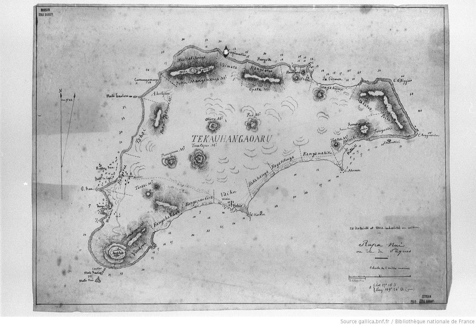 map of Easter island, Eastern Pacific Ocean, Chile, with historic districts. 20 inhabited coastal districts listed clockwise, starting at current capital Hanga Roa: Hangaroa (Hanga Roa) Tahai Ahutepeu (Ahu Tepeu) Maitakitemoa (Maitaki-te-moa) Vaimata Hangaoteo Anakena Ovahe Hanga Koonu Mahatua Tongariki Hotuiti (Hutuiti) Hangamahiku Hagatetenga Hakahanga Vaihu Hangapaukura Hangahahave Vinapu Mataveri Bold until middle of 19th century